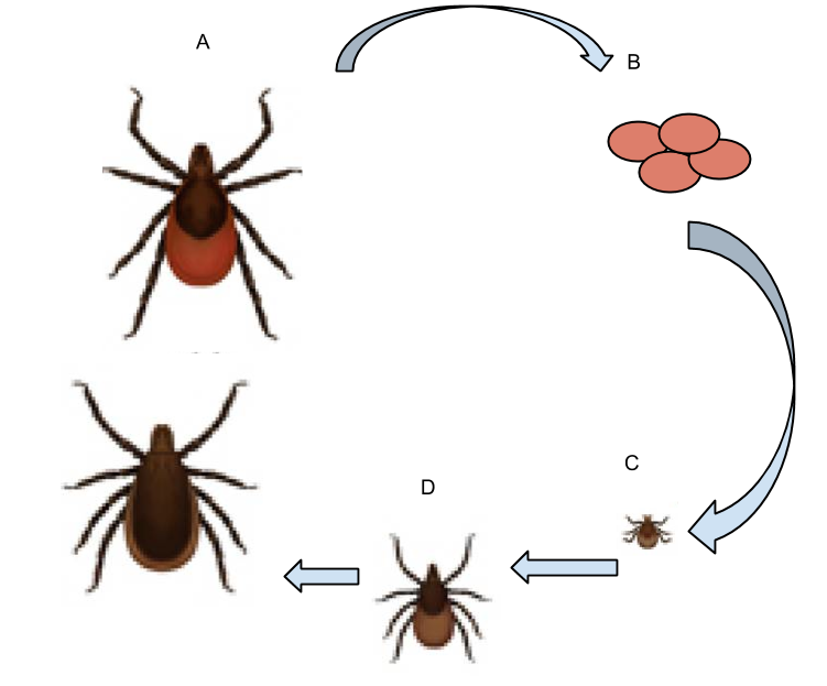 A. Female adults lays 1,500 eggs in the spring B. Eggs hatch C. Larva feed on smaller mammals D. Larva grow to Nymphs and the Nymphs feed on larger mammals including people E. Larva become adults and feed on large mammals ( Partially derived from )